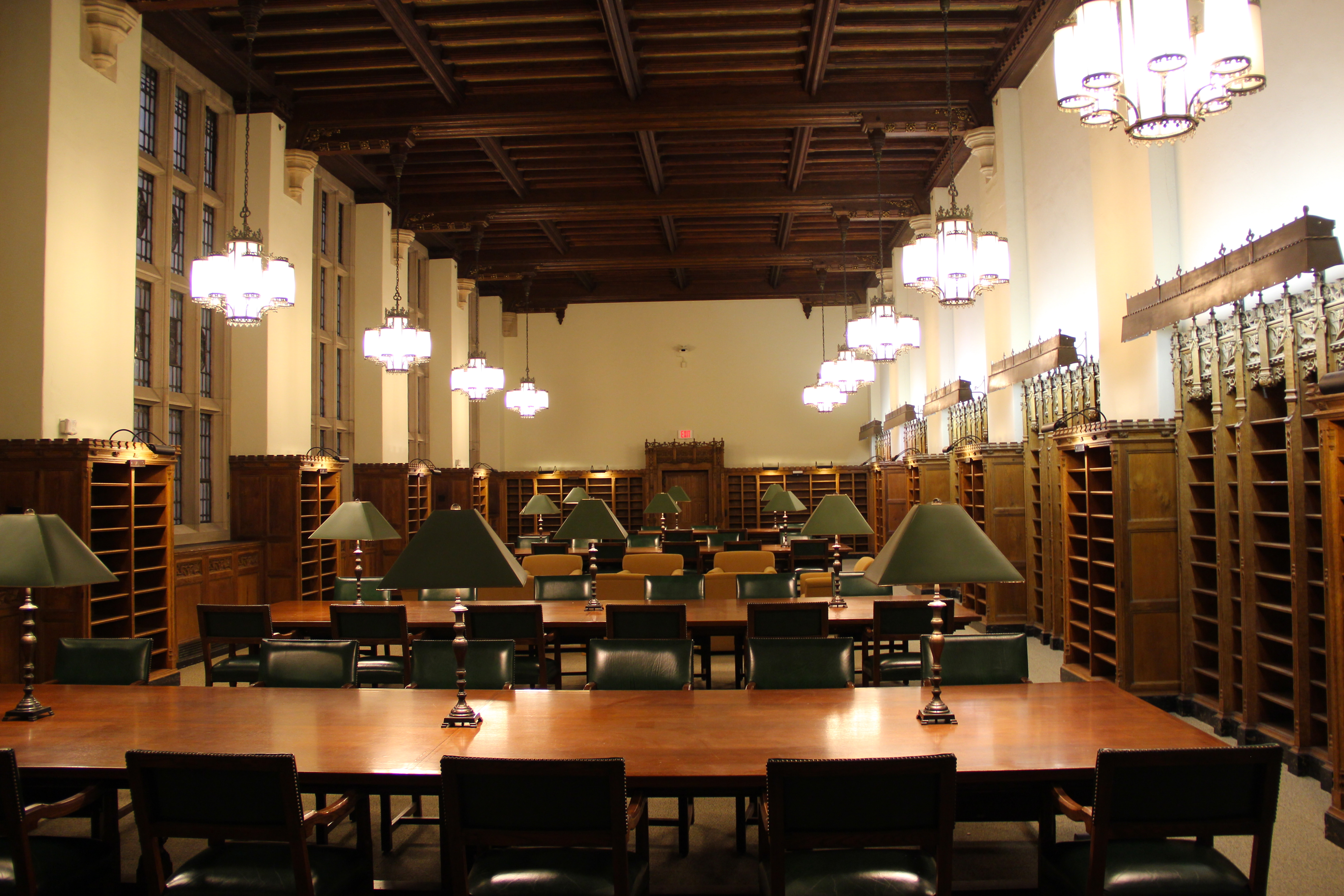 Newspaper Reading Room (periodicals temporarily relocated), Sterling Memorial Library, Yale University